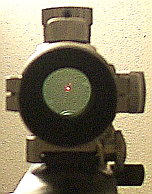 View through Tasco ProPoint II 5 MOA red dot sight, mounted on a Ruger 10/22 rifle (the bottom one in Image:10 22s.jpg).